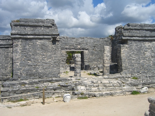 "House of the Cenote" at Tulum, Q. Roo